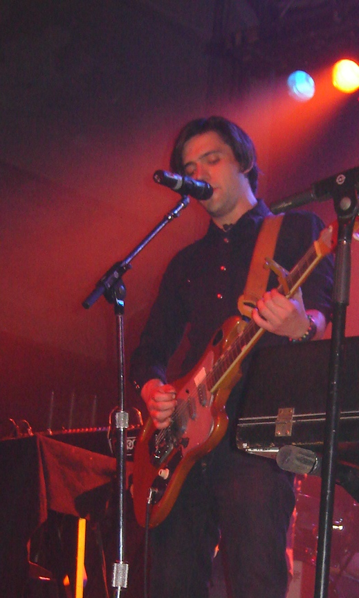 Conor Oberst performing with Bright Eyes at Schlachthof, in Wiesbaden, Germany.